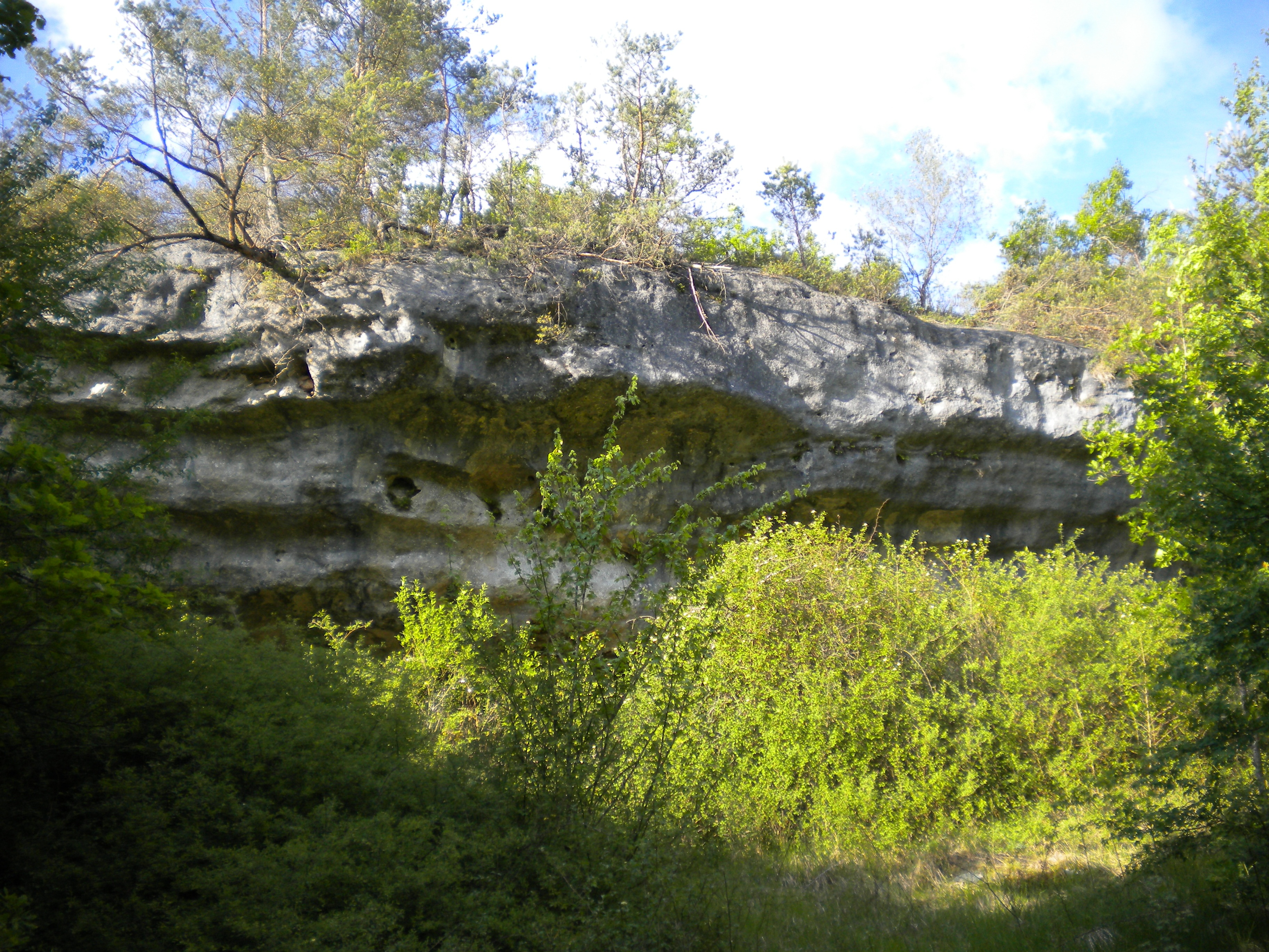 Cliff overhang made of weakly dipping Angoulême Formation, lower member of the Angoumian (Lower Turonian). Near Champeaux-et-la-Chapelle-Pommier, Dordogne, France.